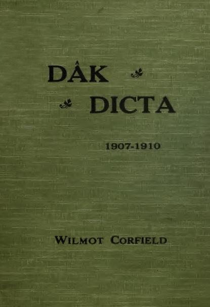 Cover of dak dicta a selection from verses written in Calcutta, 1907-1910.